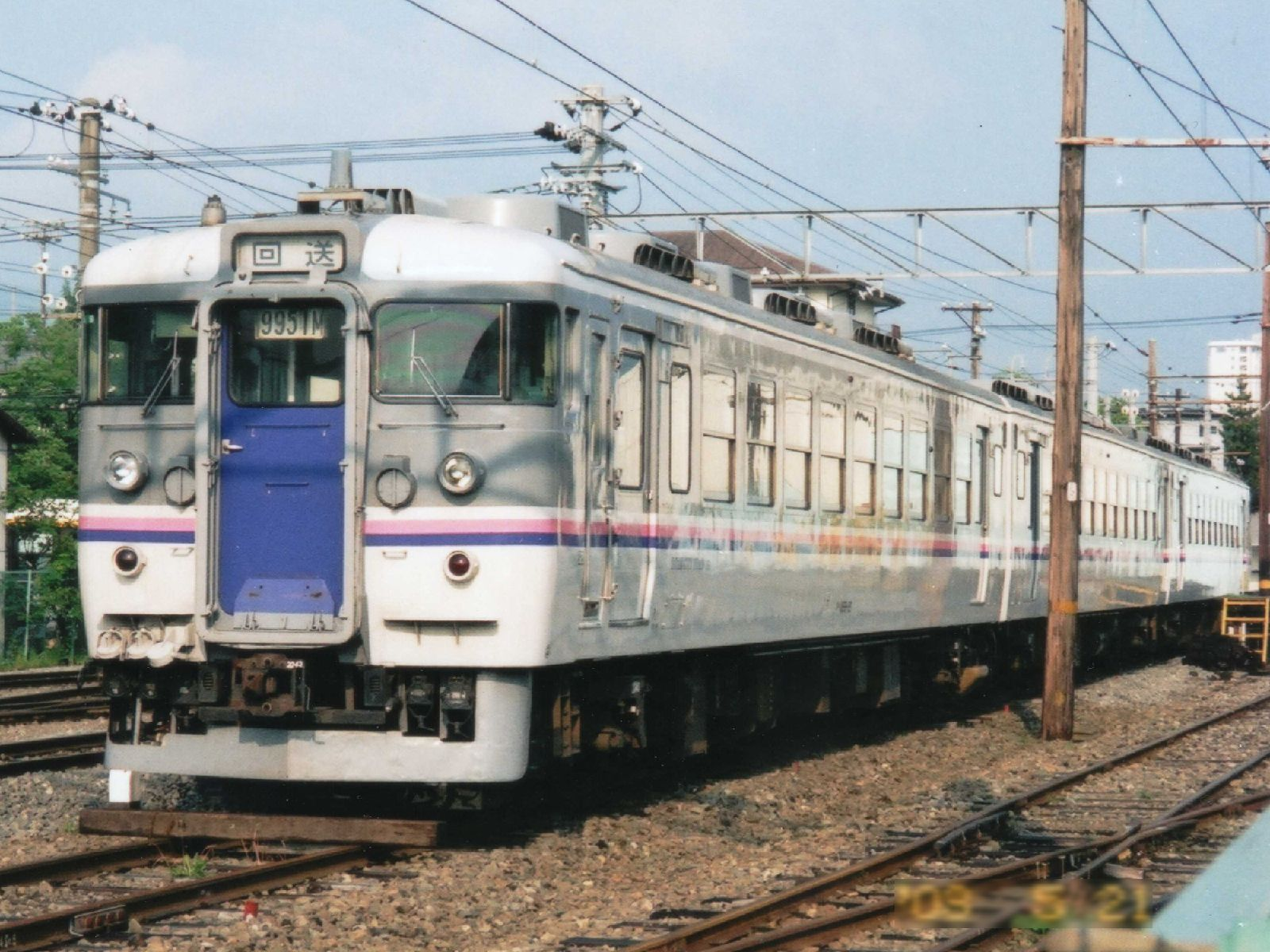 Former JR East 165 series EMU set at Fujiyoshida Station on the Fujikyuko Line